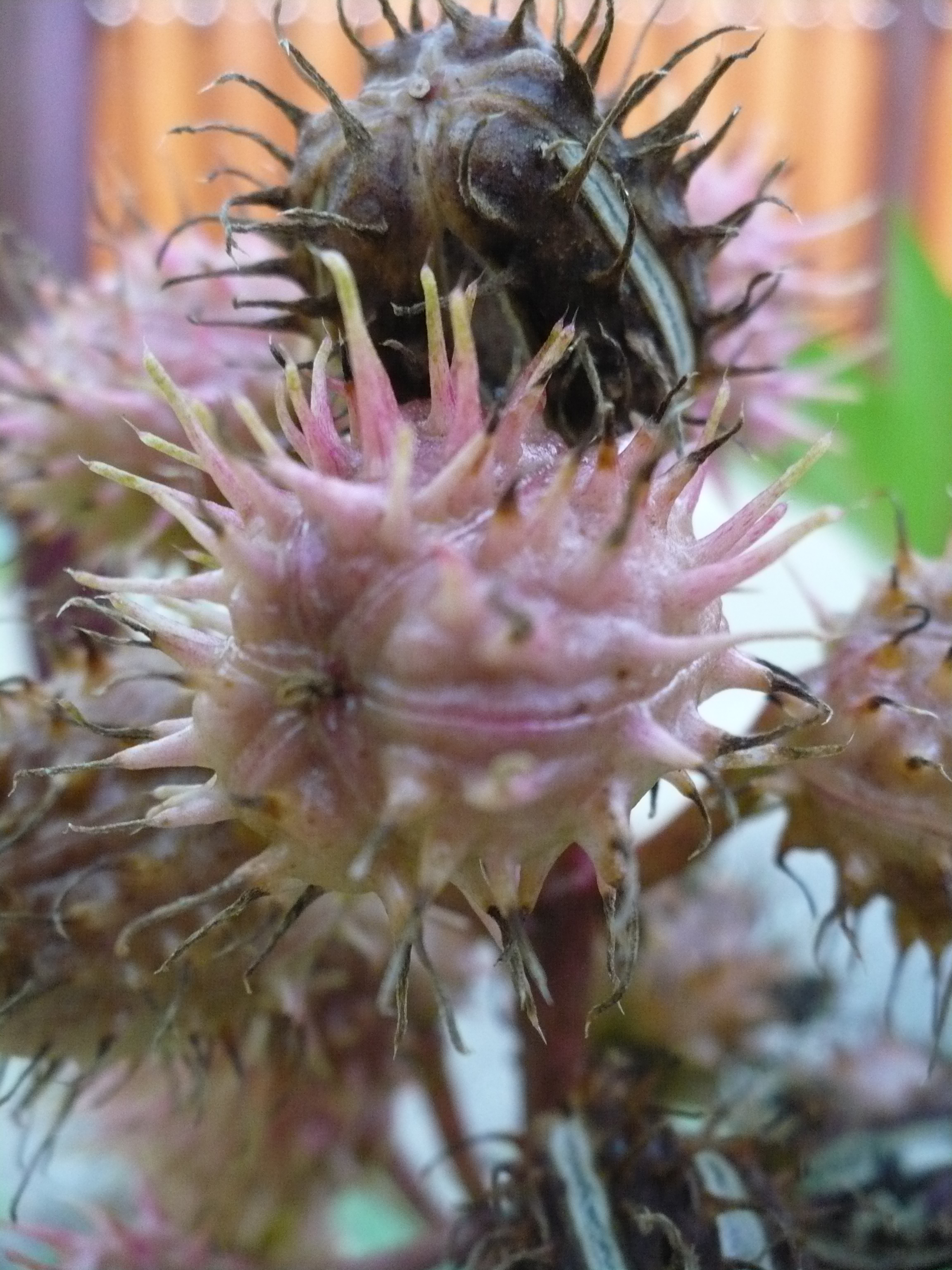 Fruits of ricinus